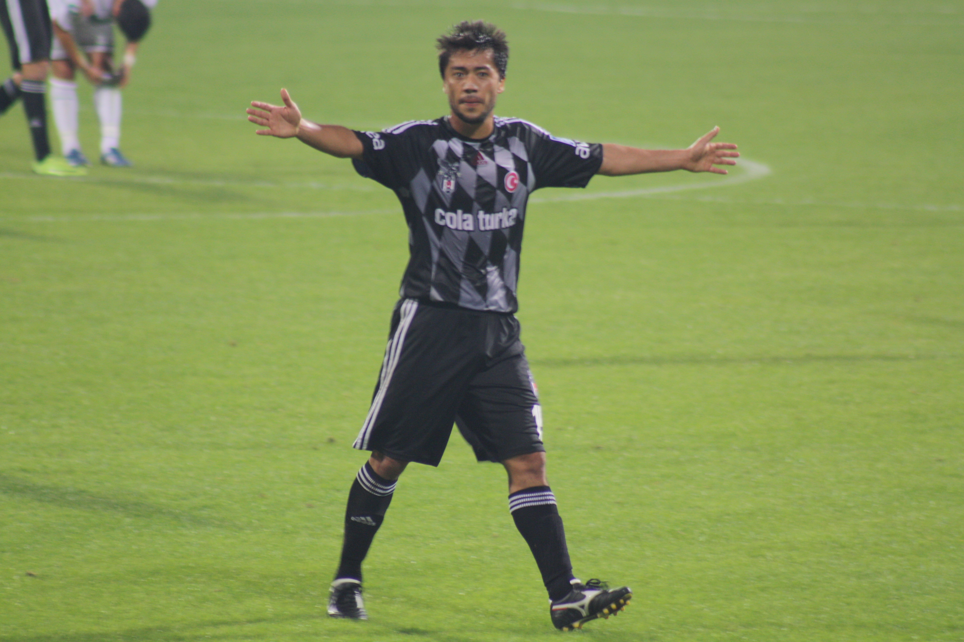 2009-2010 Besiktas - Denizlispor taken in comparison